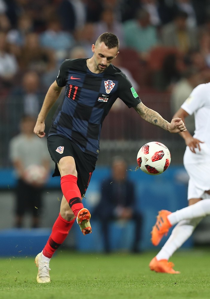 Marcelo Brozović